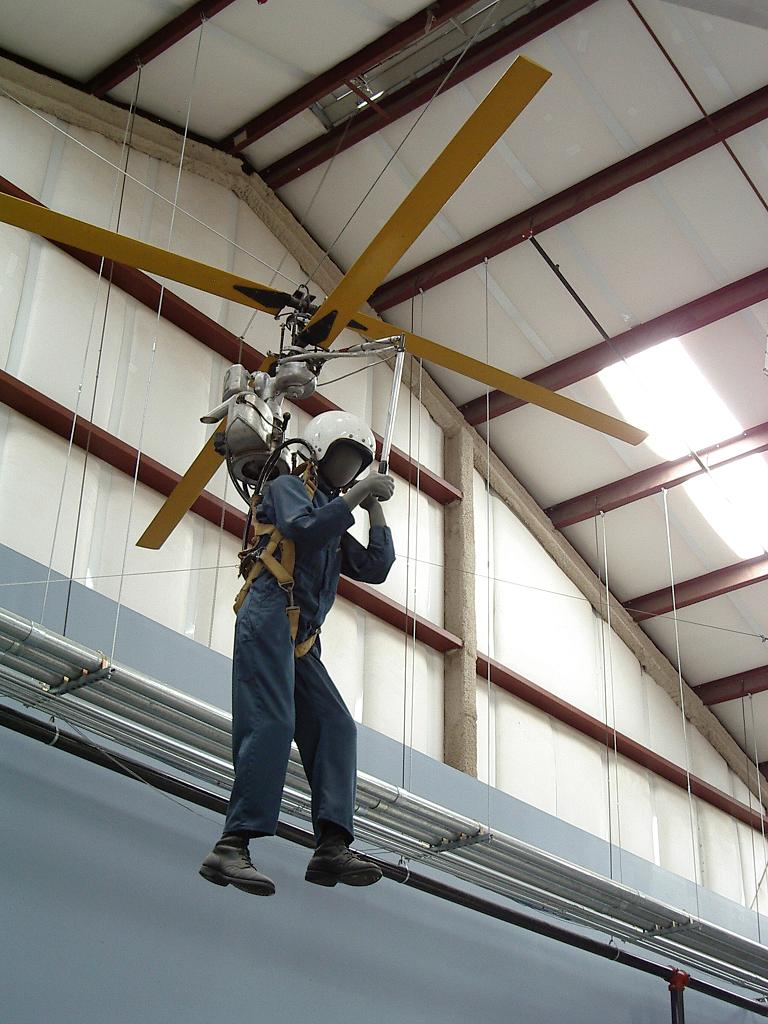 Own work by uploader. Photo taken at Pima museum Arizona. Public photography permitted.